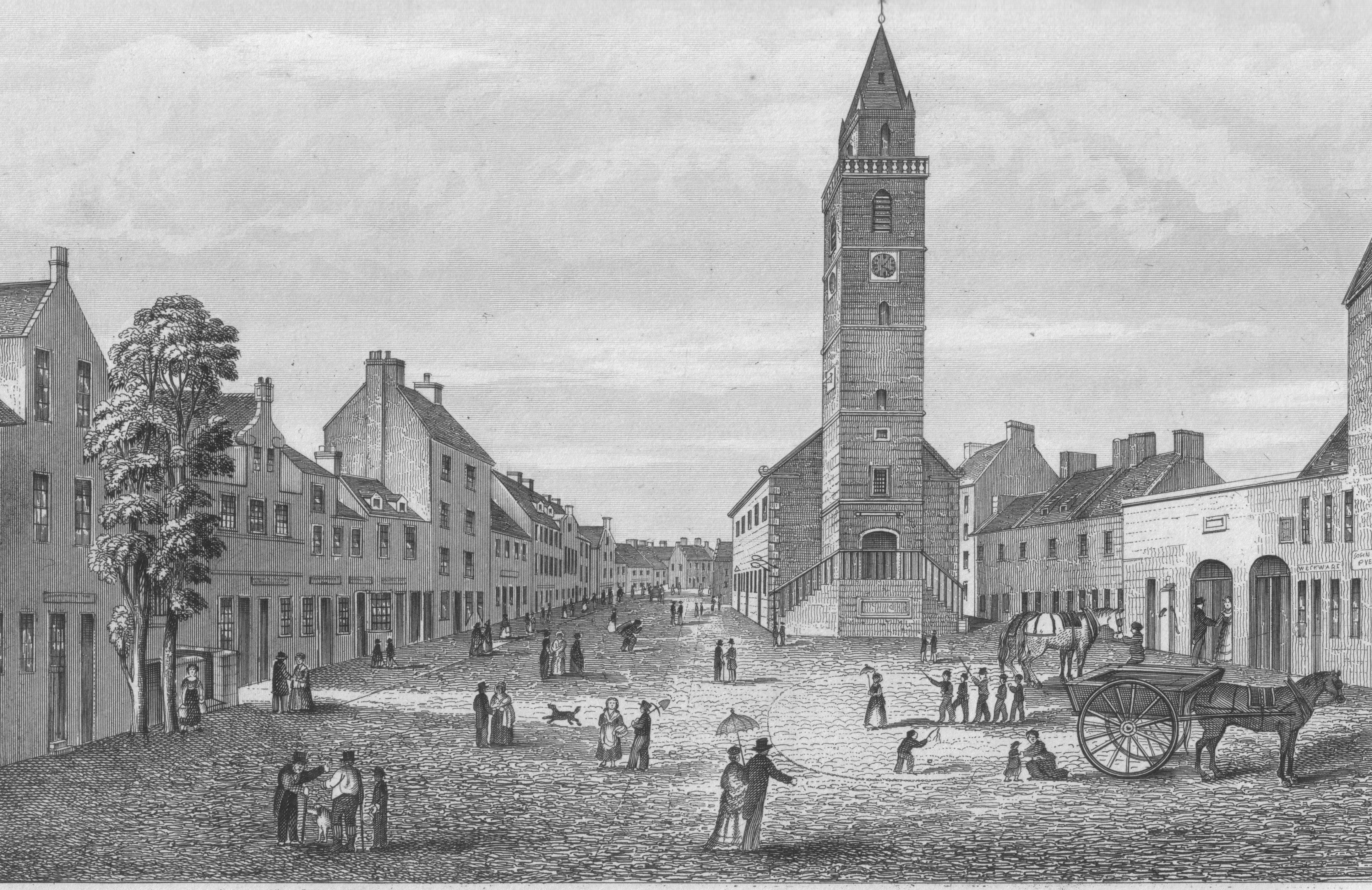 Irvine High Street in the early 19th century. North Ayrshire. Scotland